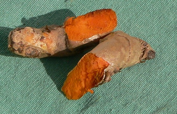 Photo by Ulrich Prokop (Scops 11:28, 11 February 2007 (UTC))